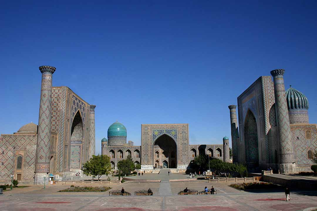 Registan mosques in Samarkand.